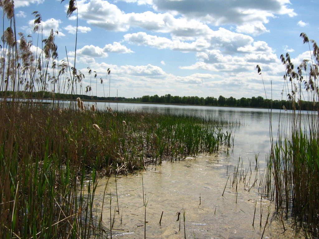 Lake Woszczelskie. North-Eastern Poland.